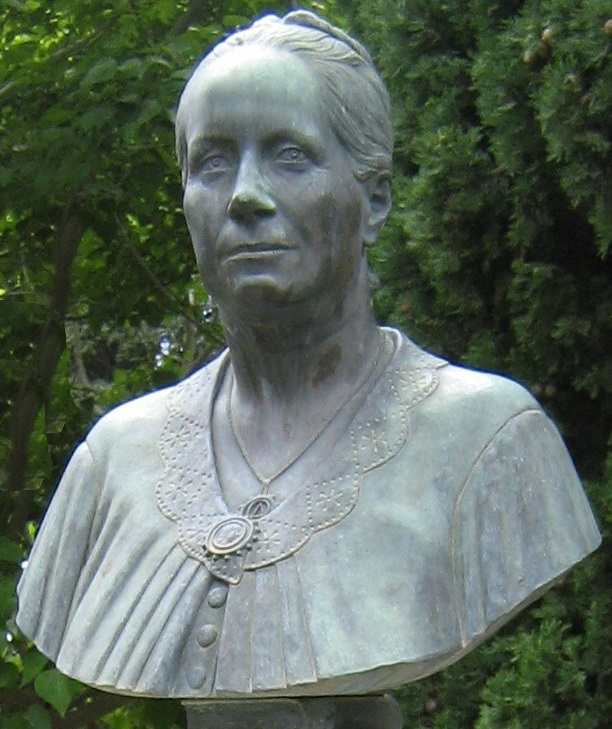 Bust of Florence Trevelyan in the Giardino Pubblico, Taormina, Sicily